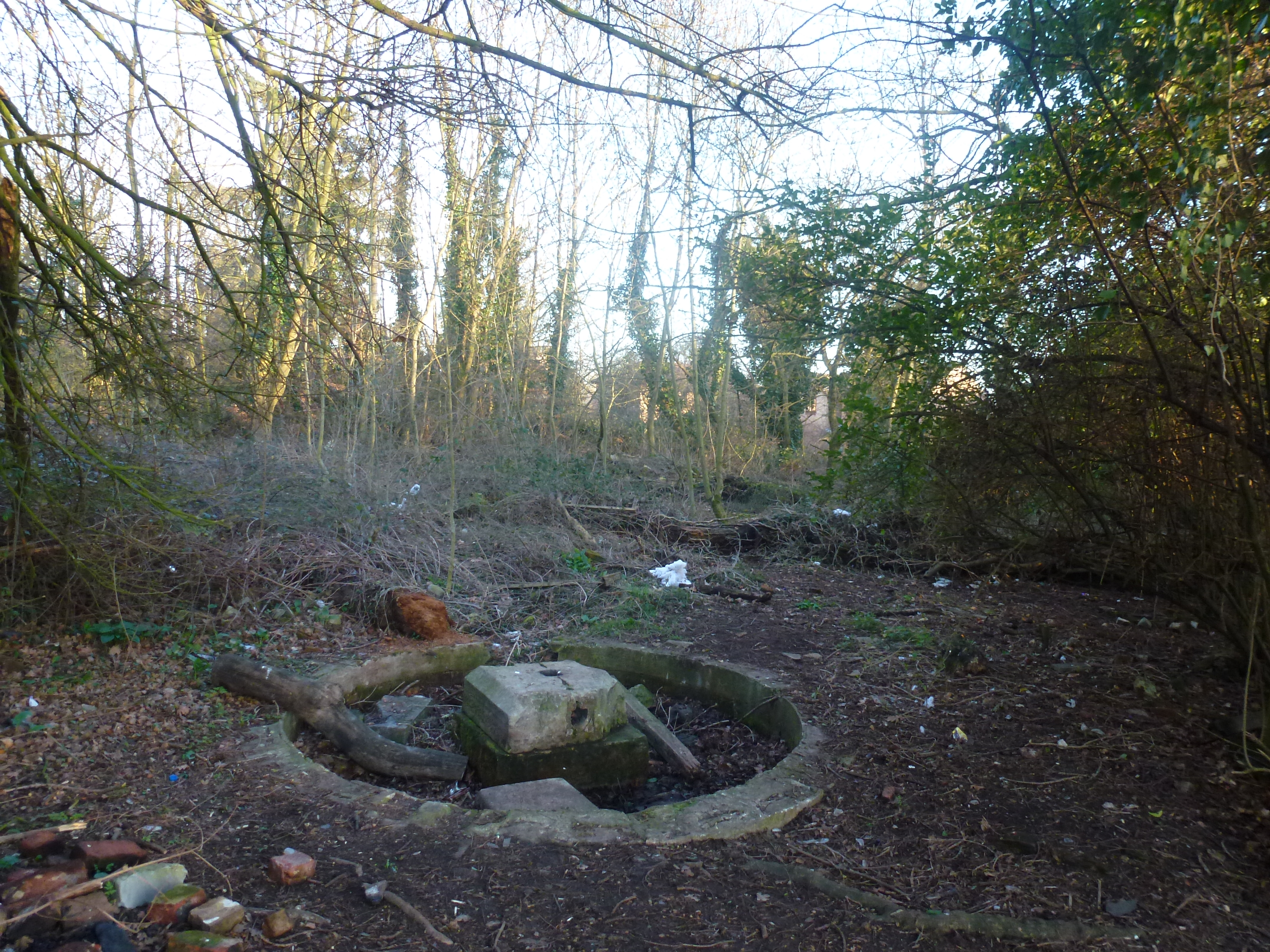 Reffley Temple today